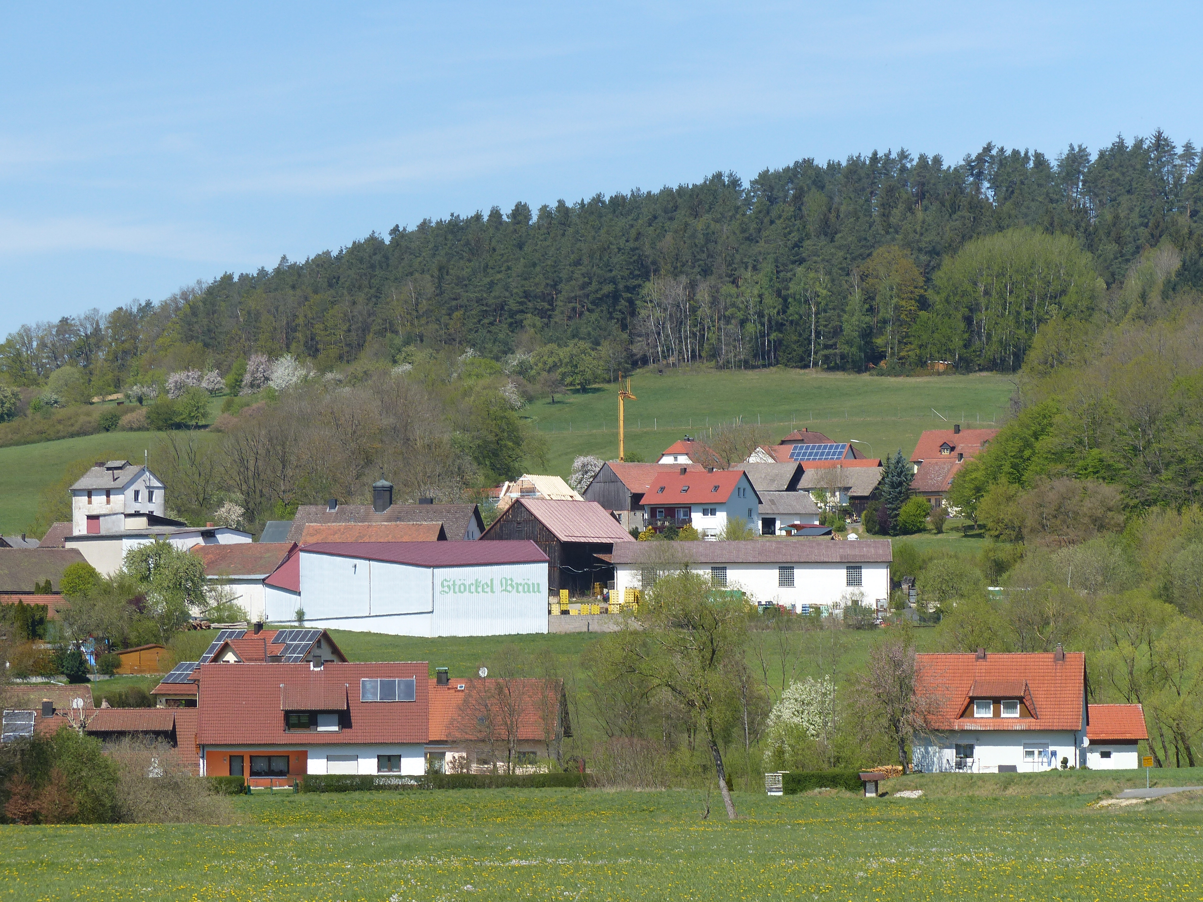 The village Hintergereuth, a district of the municipality of Ahorntal.